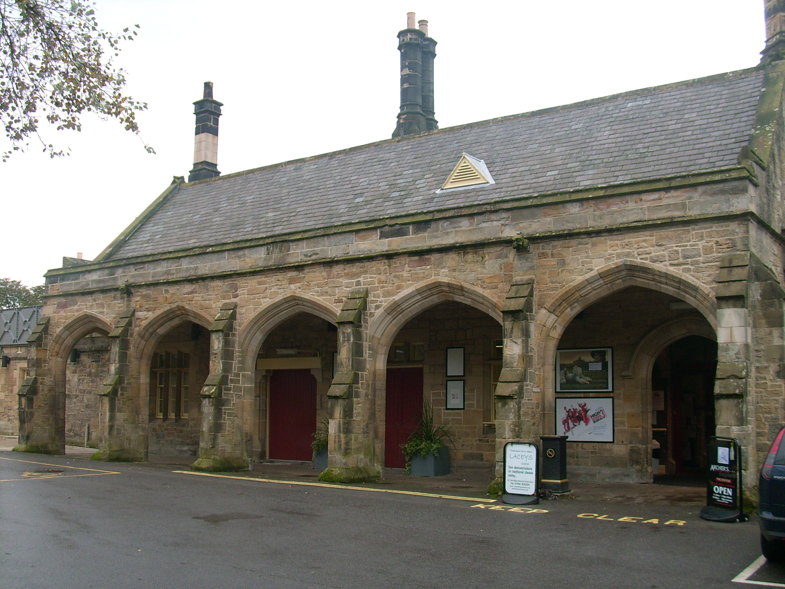 Entrance to Richmond railway station